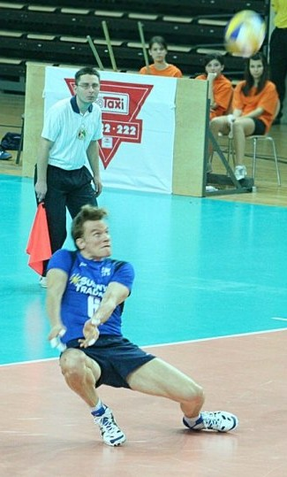 Finland national team captain Tuomas Sammelvuo receive spike in Ukraine Olympic Qualifications